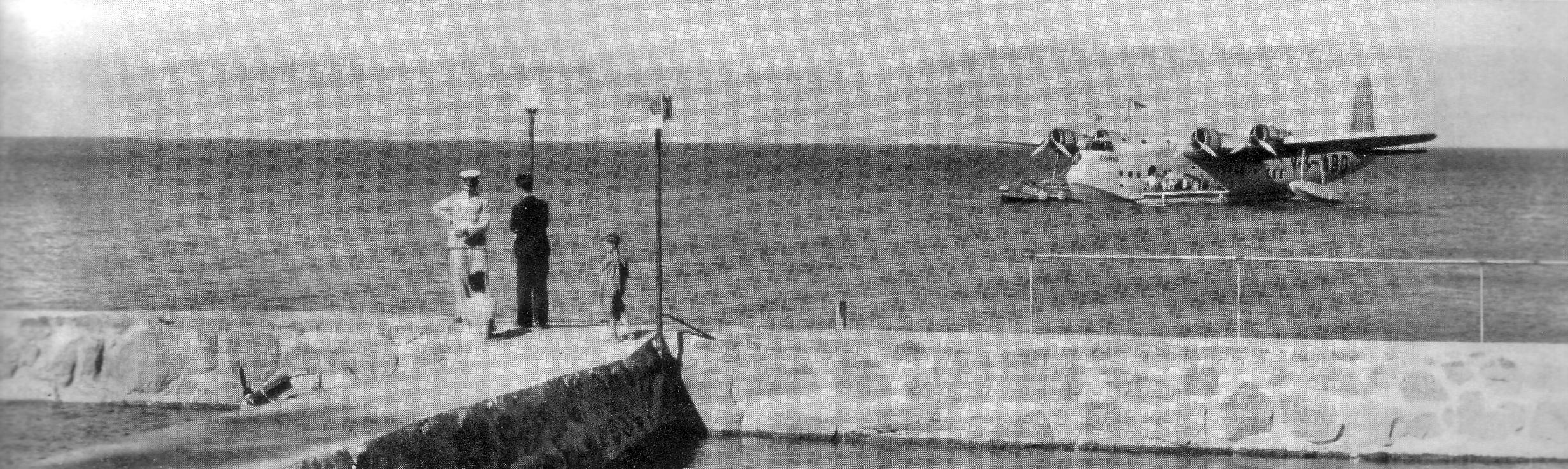 London-Australia flying boat refuels on the Sea of Galilee. An Imperial Airways seaplane, coming from India on its regular schedule, alights at 686 feet below sea level.